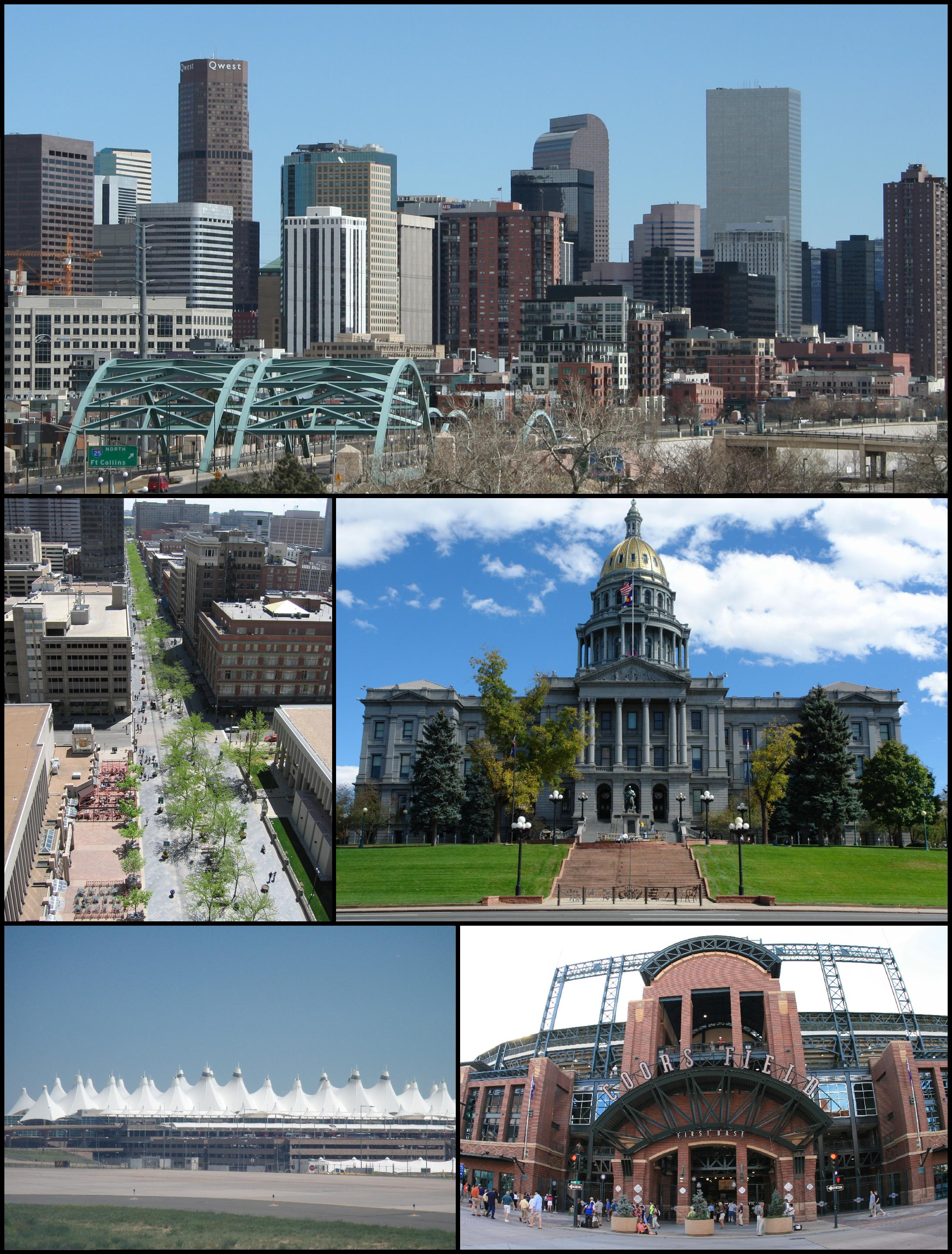 Montage of Denver images. From top to bottom left to right: Denver Skyline 16th Street Mall Colorado State Capitol Denver International Airport Coors Field